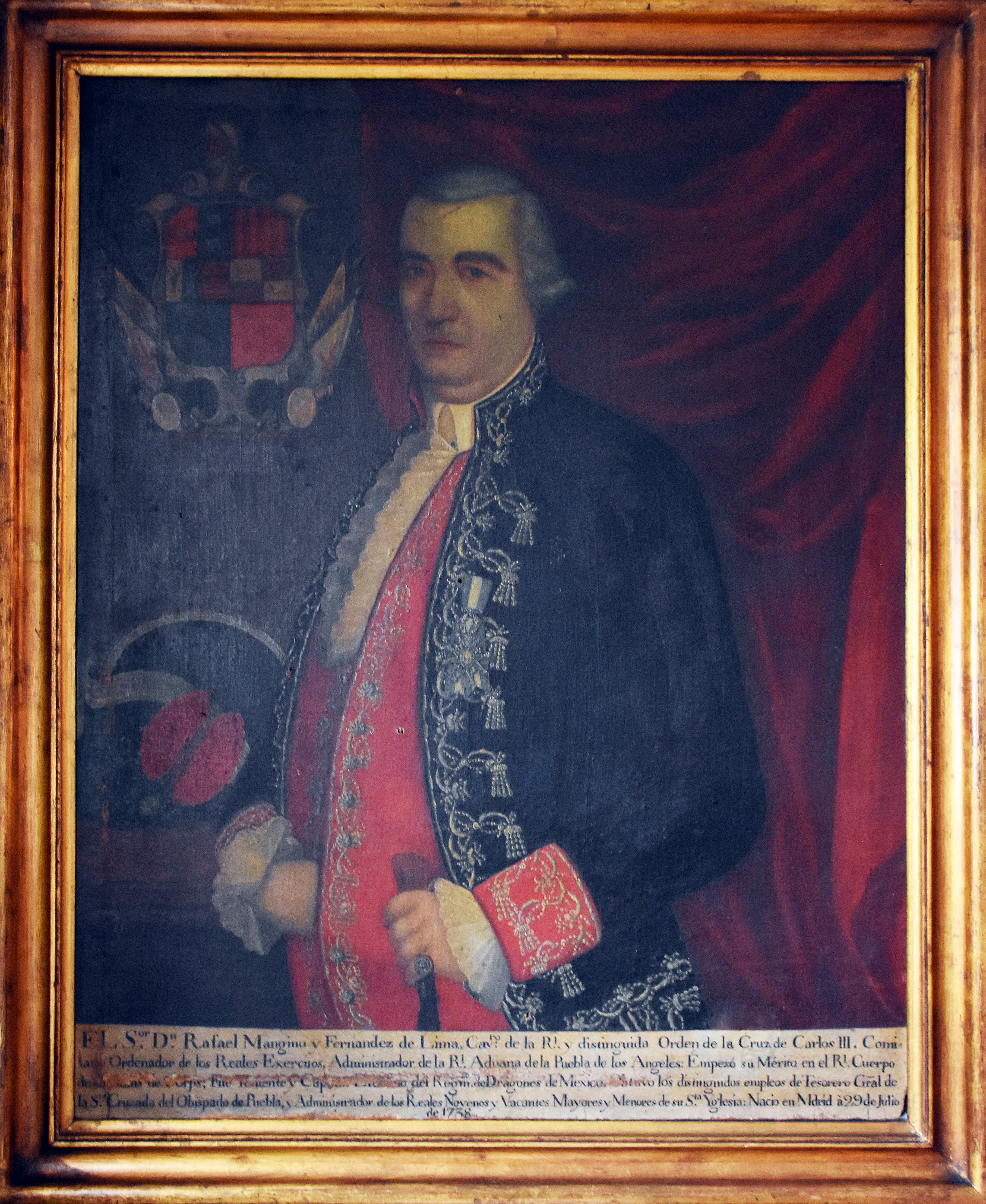 Portrait of Rafael Mangino y Fernández de Lima, father of Rafael Mangino y Mendivil.